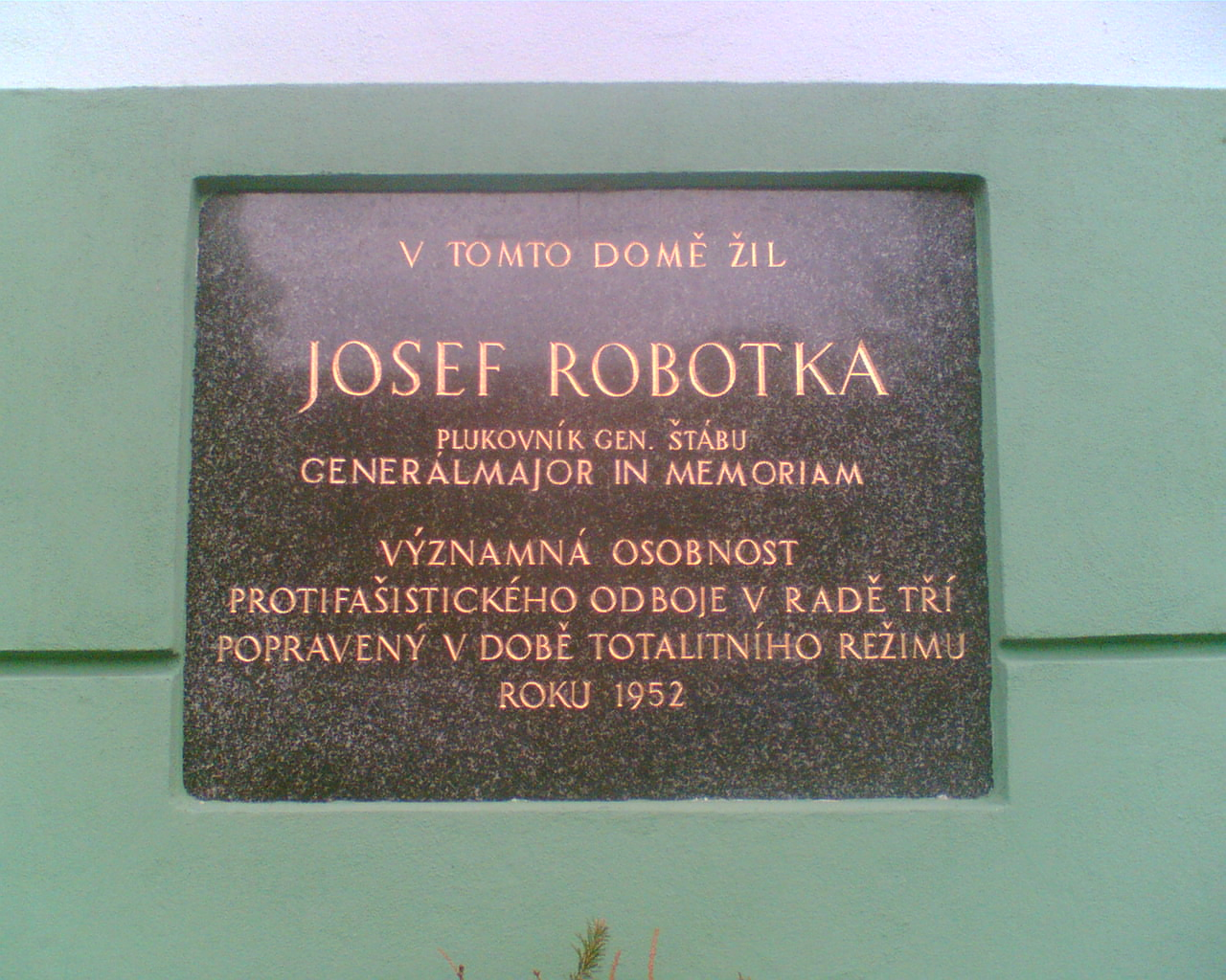 Memorial of Josef Robotka in town Velká Bíteš. Česky: Pamětní deska Josefa Robotky ve Velké Bíteši.